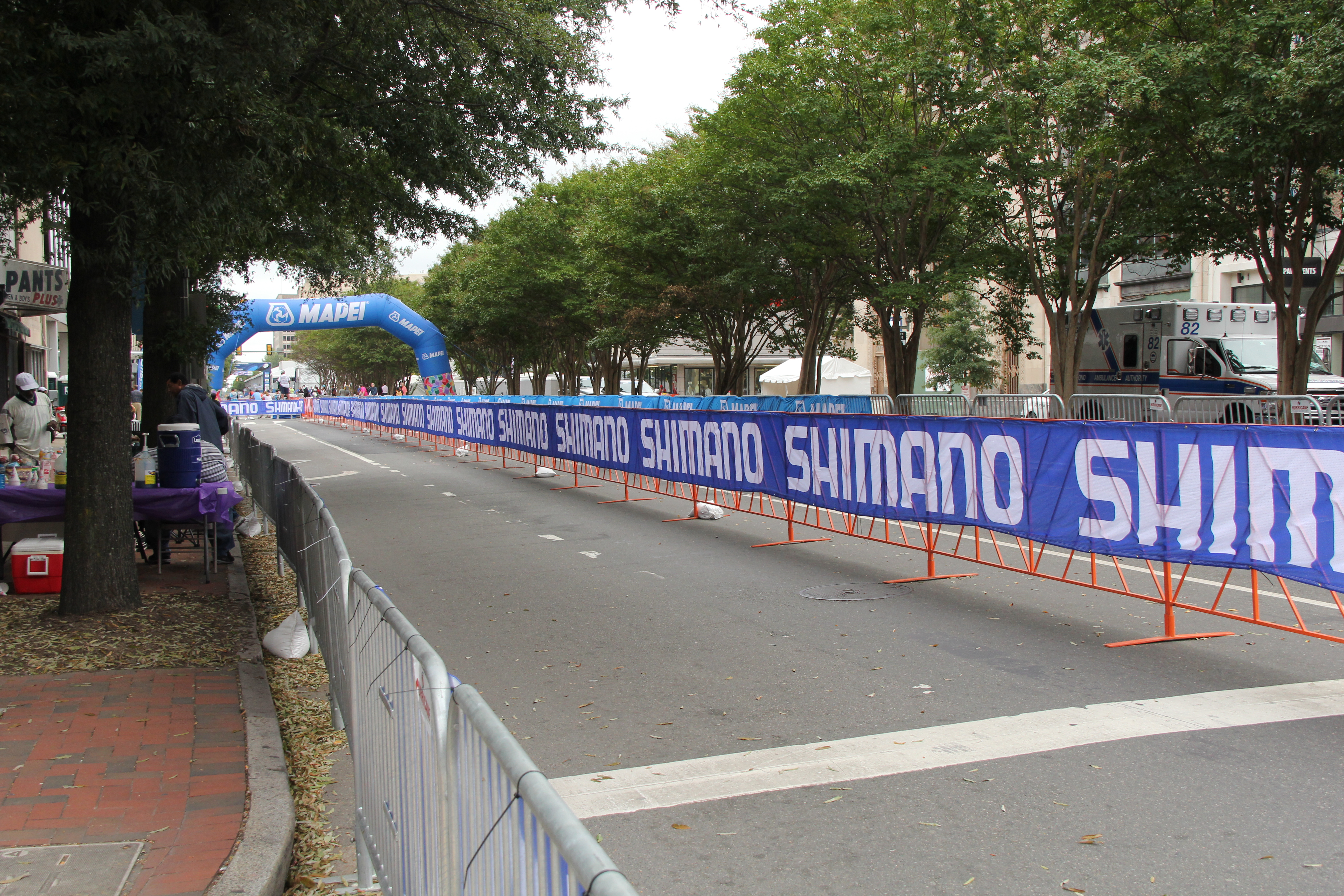 The world has come to Richmond. Welcome! Bienvenidos! Willkommen! 2015 UCI Road World Championships, in Richmond, United States